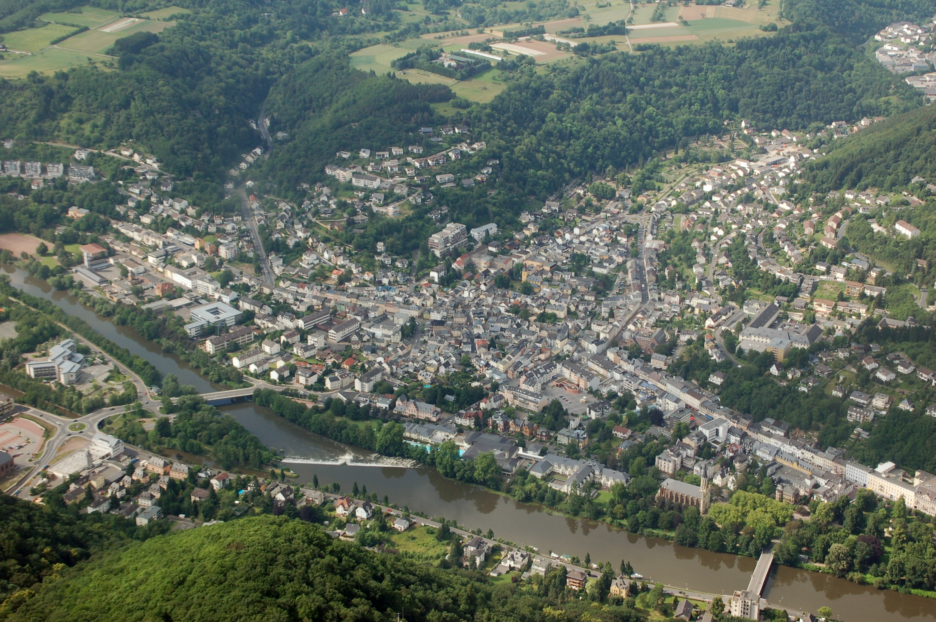 Aerial photograph of Bad Ems, Rhineland-Palatinate, Germany